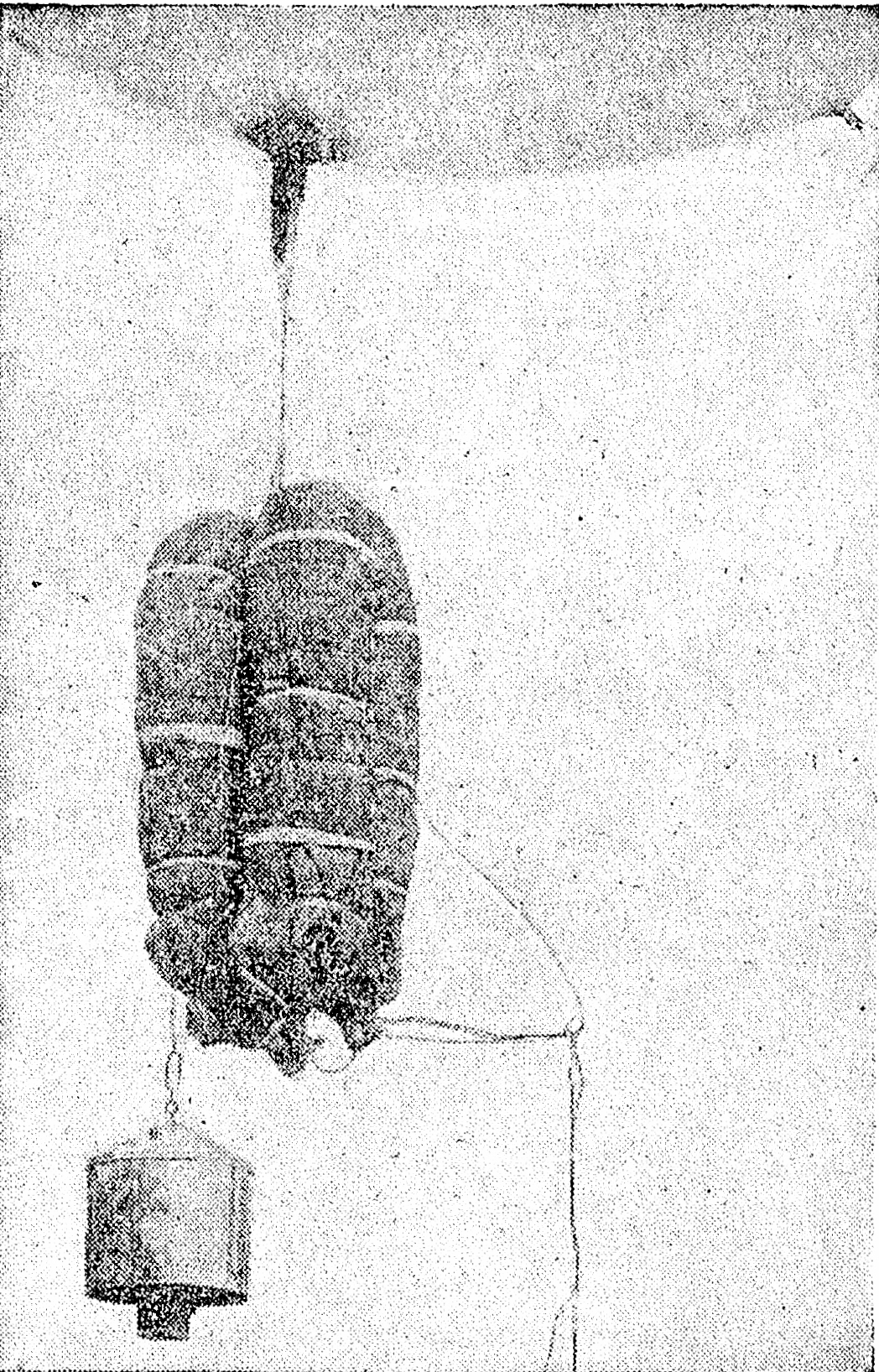 Image of incendiary socks dropped from free flying balloons. Detail from: Civil Defence Training Pamphlet No 2: Objects Dropped From The Air (3rd Edition). Issued by the Ministry of Home Security. This training pamphlet described some of the objects which could be found on the ground after and air-raid, including certain items which, though not of enemy origin, may be mistaken for hostile weapons, and others that may drop from the air at any time.